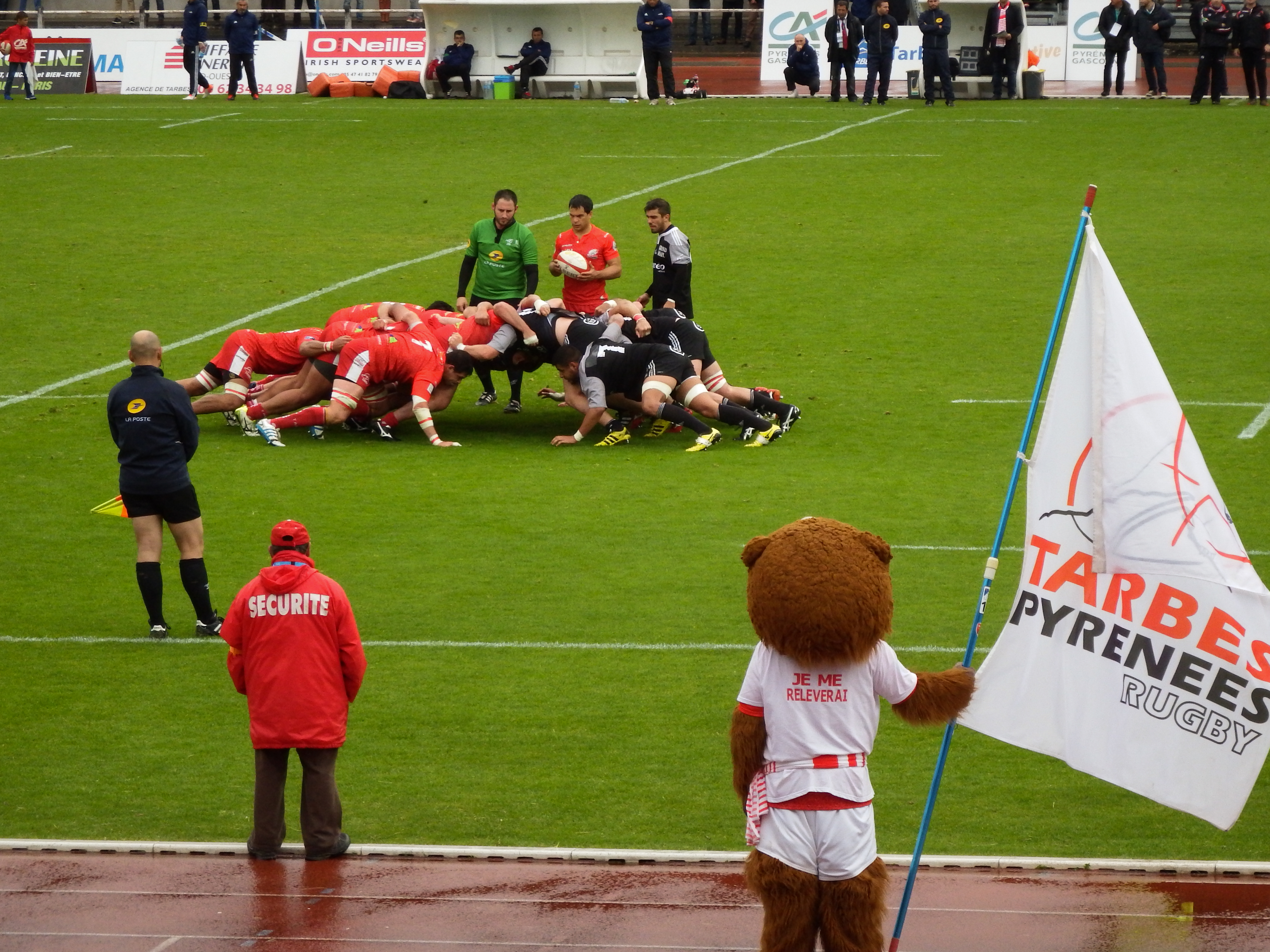 Q20724161 — 13 May 2016, stade Maurice-Trélut. Match between: Tarbes Pyrénées Rugby — US Dax